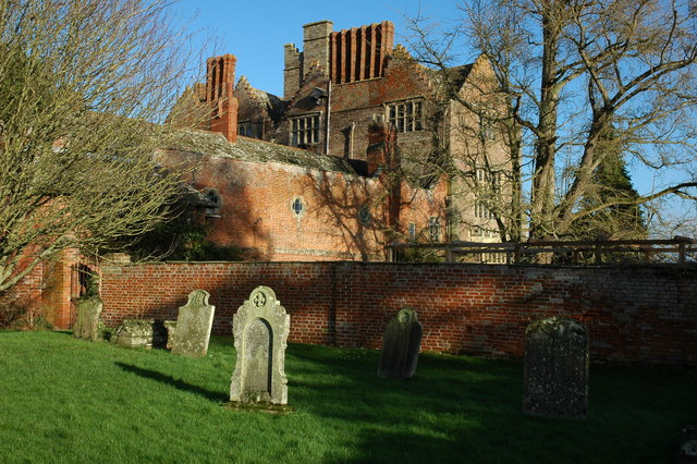 Kinnersley Castle is one of the many marches castles along the Welsh Borders. Near to Kinnersley, Herefordshire, Great Britain